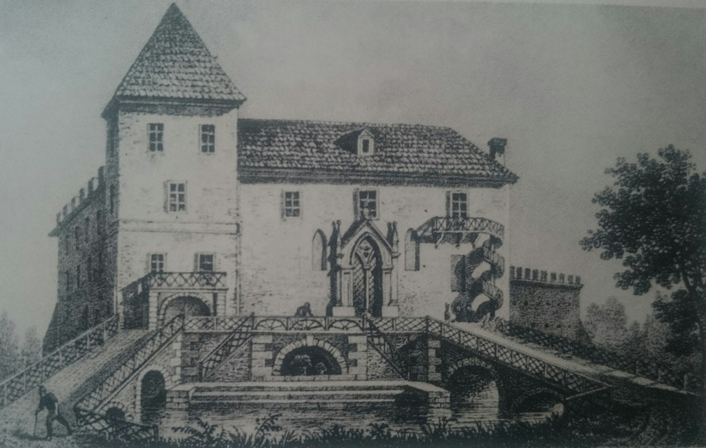 Lirography of the Oporów Castle, author - Władysław Kasprzycki, ~1843.